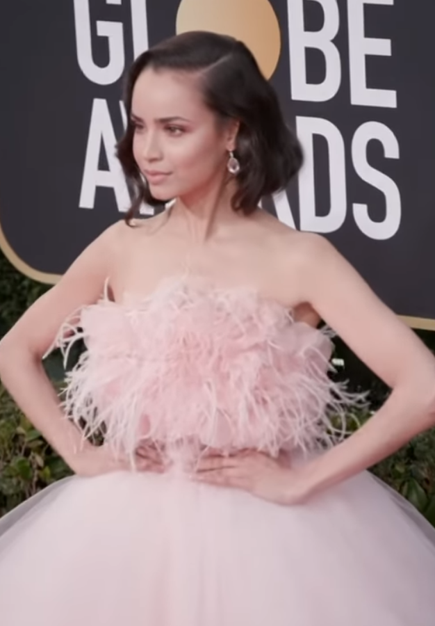 Sofia Carson at Golden Globes Red Carpet 2020